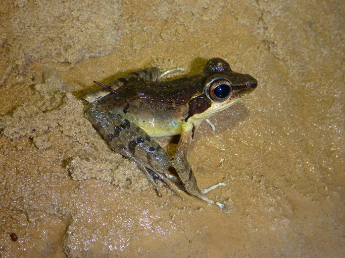 Hylarana elberti in Taman Nasional Laiwangi Wanggameti (Sumba, Indonesia)